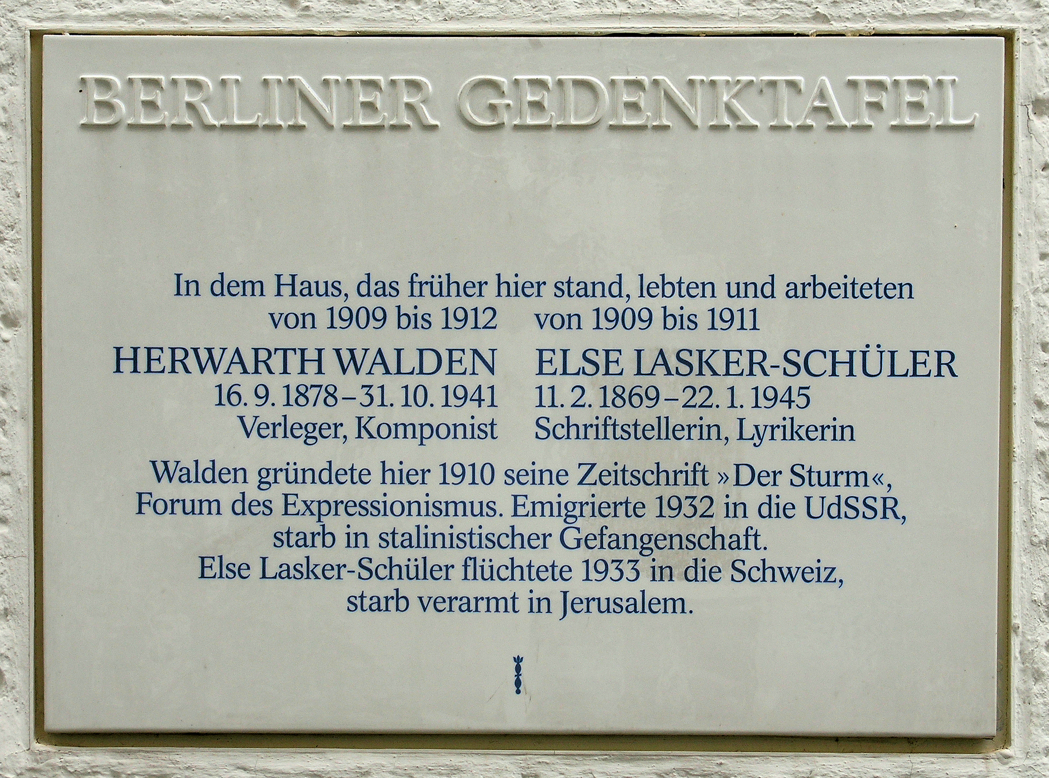 Berlin memorial plaque, Else Lasker-Schüler, Katharinenstraße 2, Berlin-Halensee, Germany Koordinate:52°29′56.1″N 13°17′33.6″E / 52.498917°N 13.292667°E